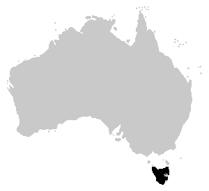 Distribution map of the Tasmanian Froglet, (Crinia tasmaniensis).